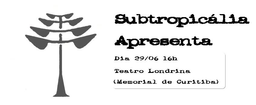 primeiro subtropicalia apresenta